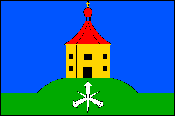 Municipal flag of Číčovice village, Prague-West District, Czech Republic.